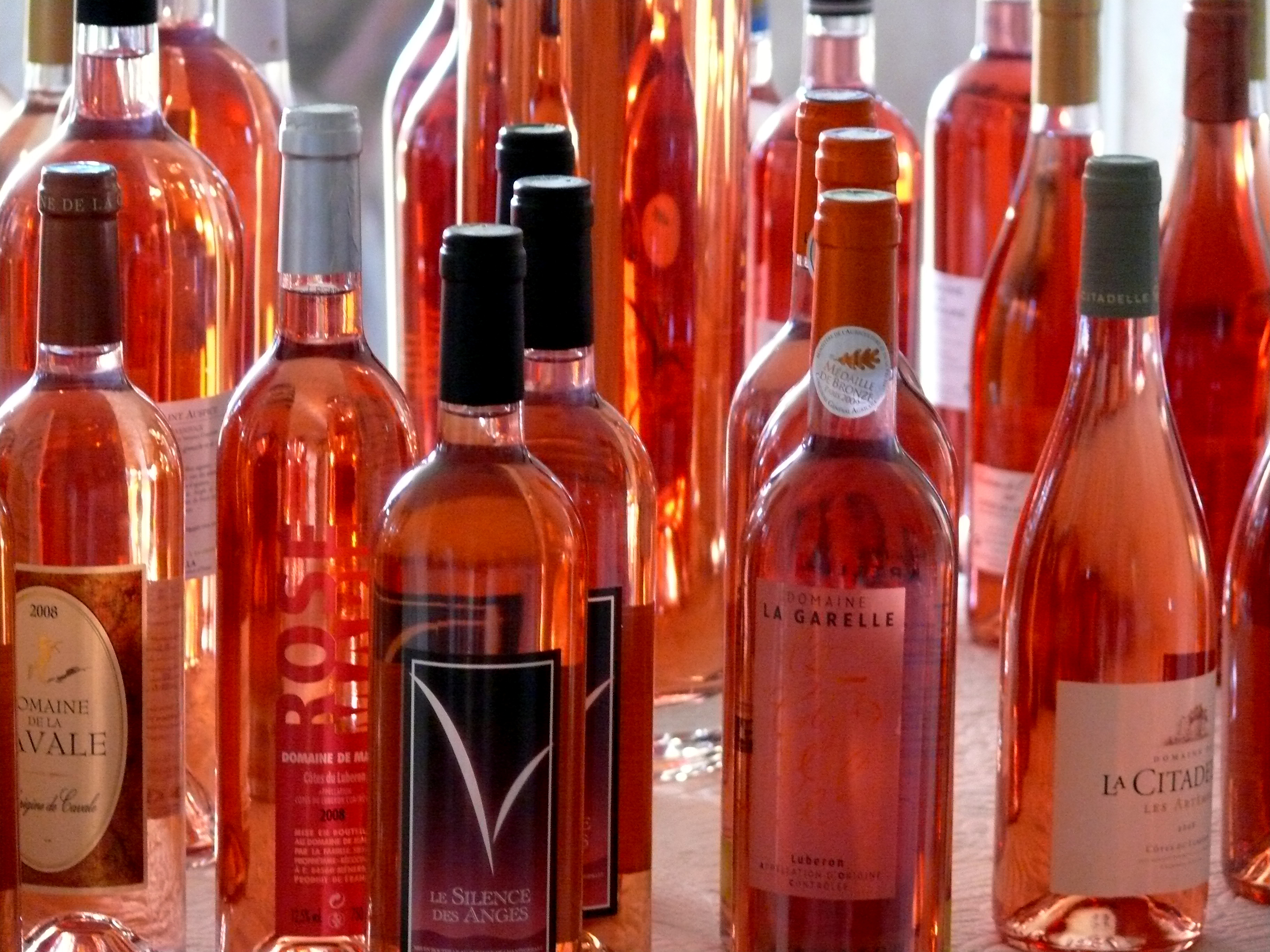 Several French rose wines from the Rhone Valley and Provence.